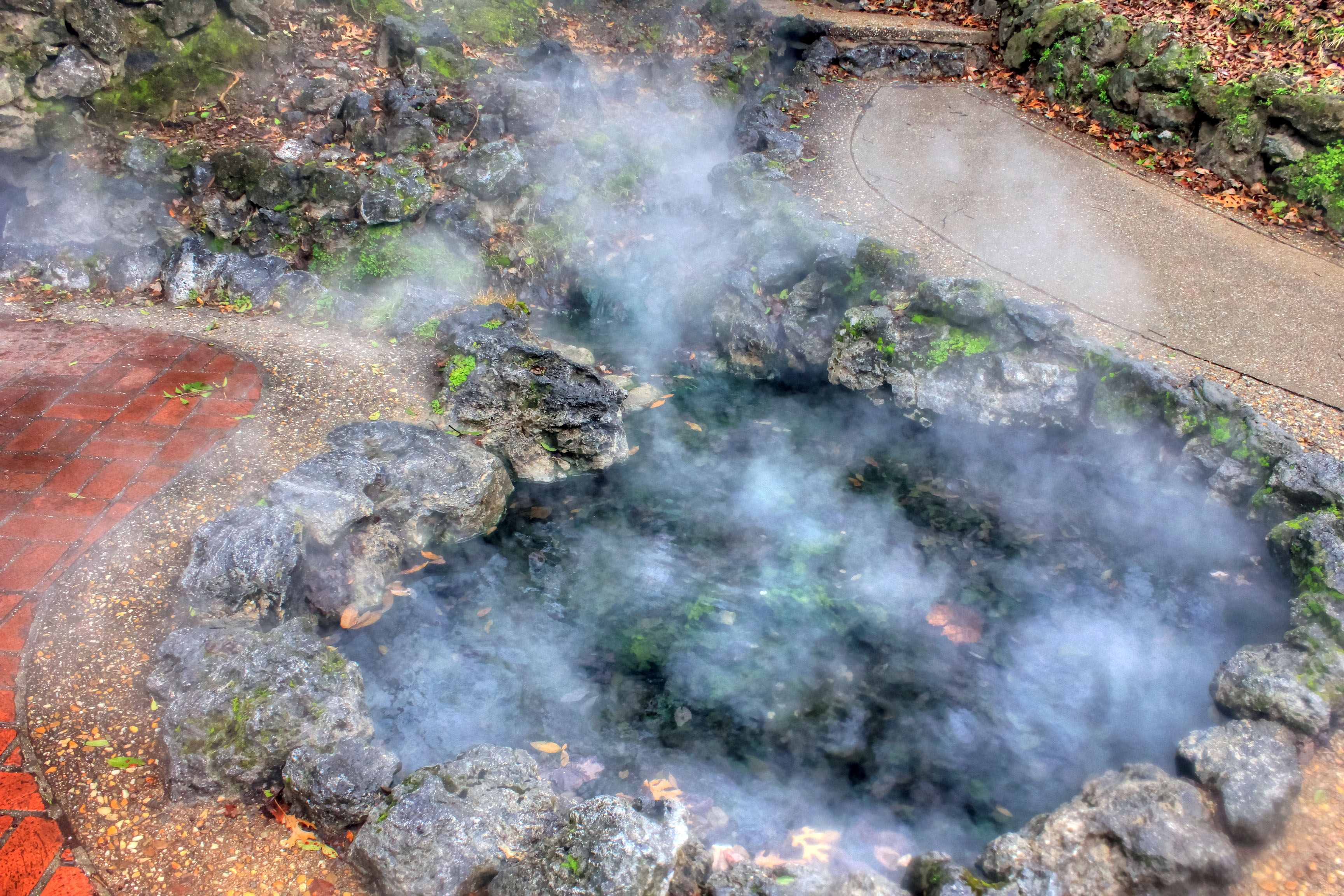 Hot Springs is a small town in central Arkansas that is home to the famous Hot Springs National Park. It is a historical town full of old bathouses, an old fede Steam coming from one of the springs